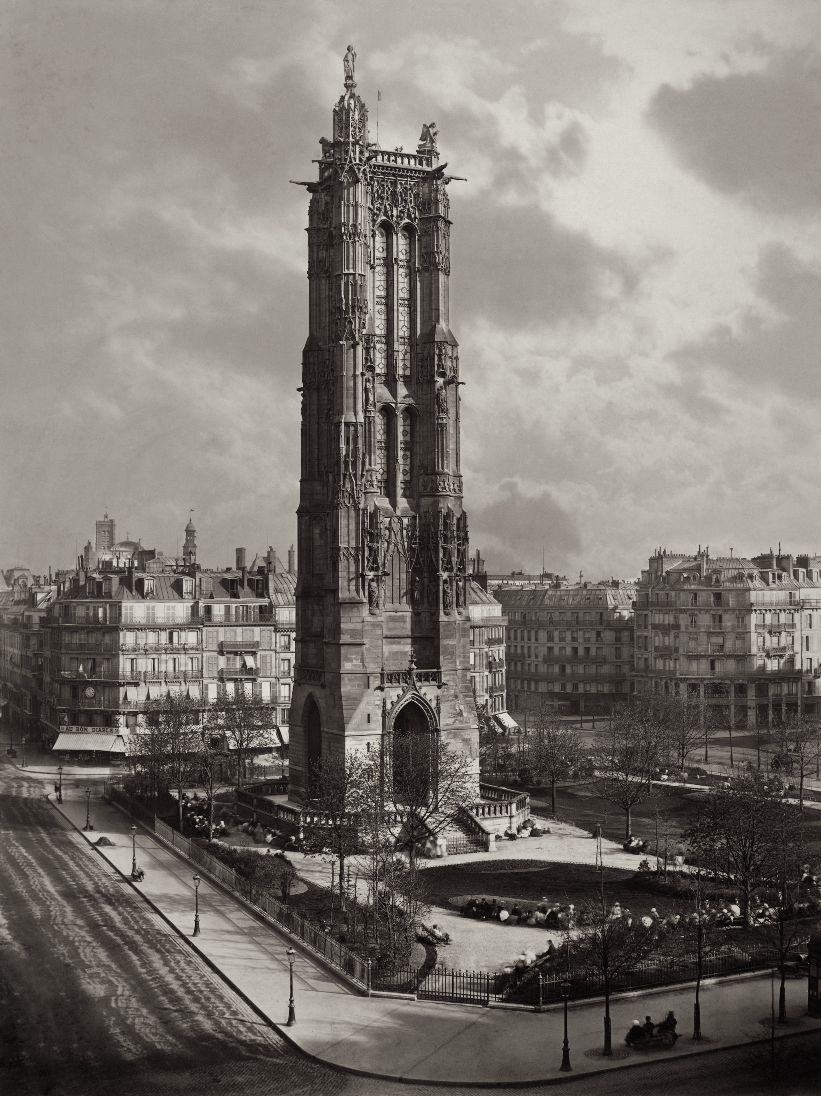 The freestanding Tour Saint-Jacques that one sees today in a park just off the rue de Rivoli in the heart of Paris is all that remains of the Gothic church of Saint-Jacques la Boucherie. Built between 1508 and 1522, the tower lost its statuary and its dozen bells during the Revolution, but its basic fabric escaped the demolition visited upon the rest of the church. It was sold in 1797 and was put to use for a purpose far from its original function: as a shot tower. Droplets of molten lead formed into perfect spheres as they fell through the nearly two-hundred-foot interior of the tower into a cooling tub of water at the bottom. In 1836 the tower was bought by the City of Paris. In the early 1850s, the tower was disengaged from the surrounding buildings, the lower part of the Tour Saint-Jacques was rebuilt to function as a civic monument, its destroyed statuary was remade, and the surrounding area was redesigned as a park. The surface of the new Square Saint-Jacques was lowered in order keep the nearby streets level, and a raised platform with steps was built as a transition between the old and new ground levels. Visitors could ascend the tower for a panoramic view of Paris. "Galignani's New Paris Guide for 1860" remarked upon the transformation: "This interesting structure now occupies the centre of an elegant square laid out as a garden, once intersected by the filthiest streets of the metropolis, haunted by vendors of rags and other commodities of a similar nature." Like a draftsman who might exaggerate the scale of a monument to impress the viewer with its great height, Soulier chose an elevated point of view at the corner of the rue de Rivoli and the Boulevard de Sebastopol from which the restored tower could be seen rising in the center of the composition, unobstructed and dwarfing all neighboring buildings.